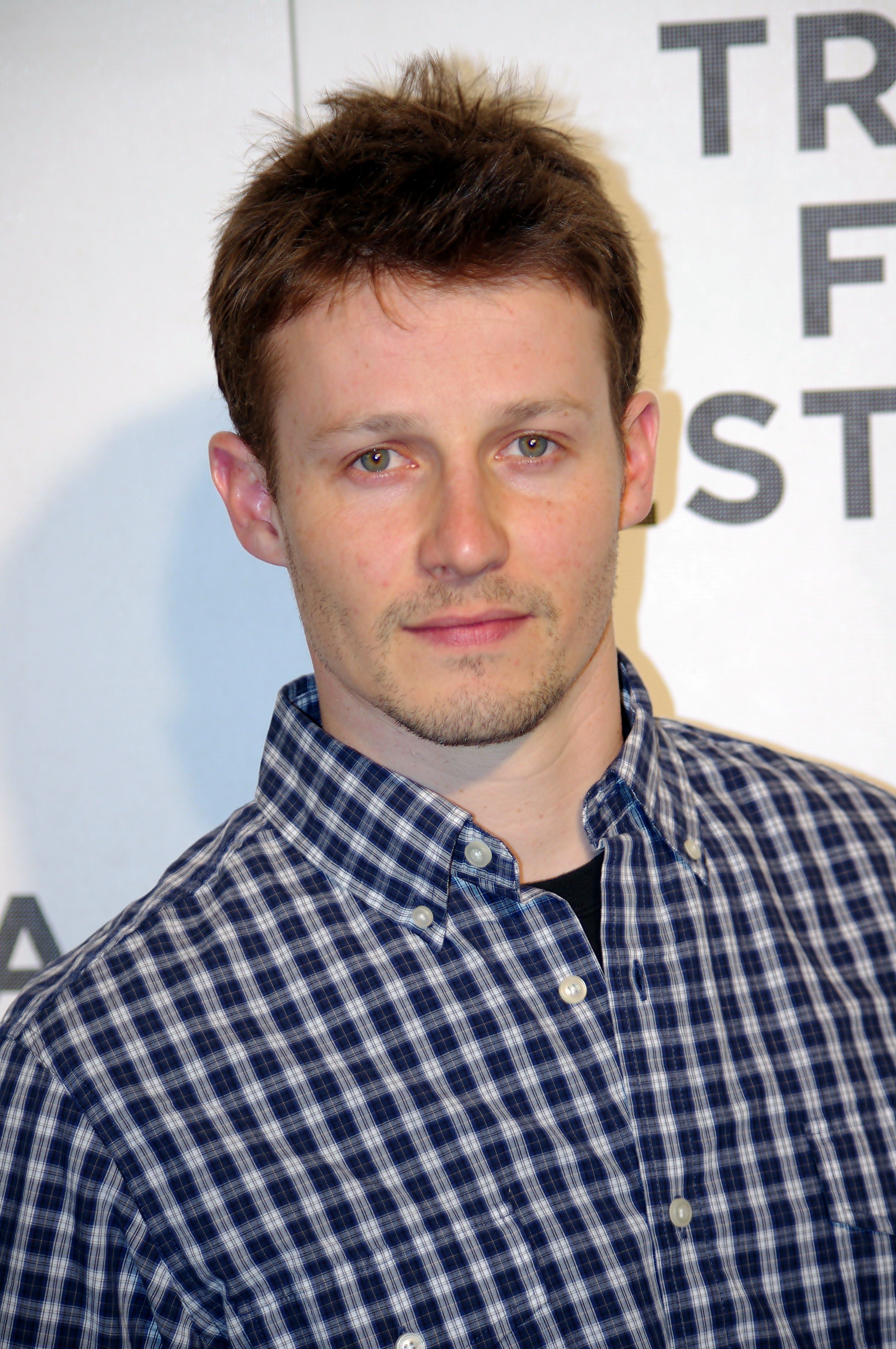 Will Estes at the 2011 Tribeca Film Festival opening of The Bang Bang Club.